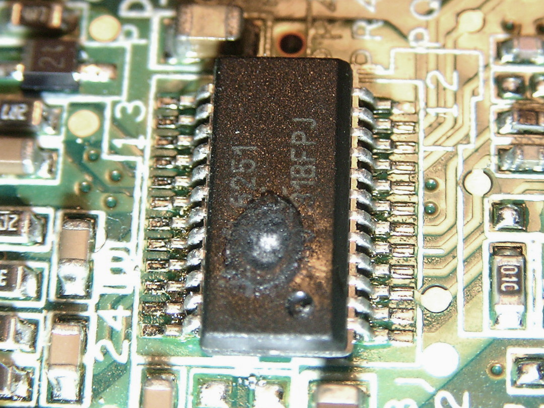 Voltage with wrong polarity has caused massive overheating of the chip, consequently melting the plastic casing.